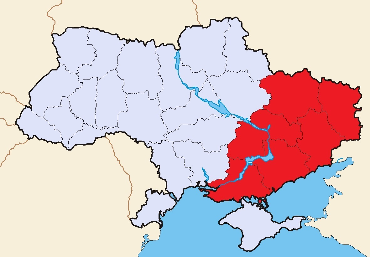 Map of Ukraine with in red the "Federal Republic of Donetsk" that was a goal of the Donetsk Republic in 2006.